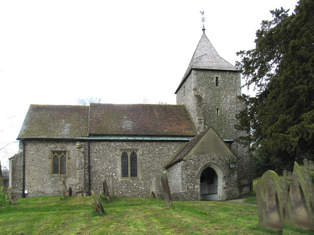 St Mary, Stansted, Kent